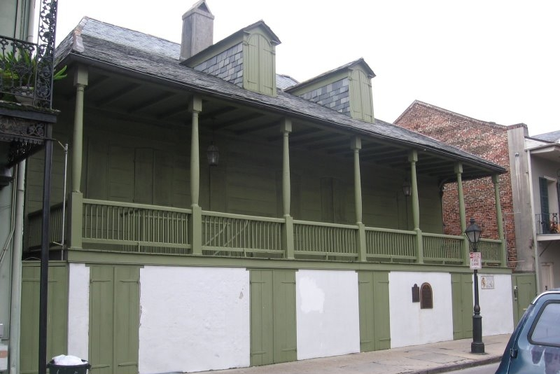 Madame Johns Legacy in New Orleans, louisiana